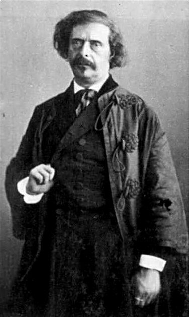 Jules Barbey d'Aurevilly (1808-1889)